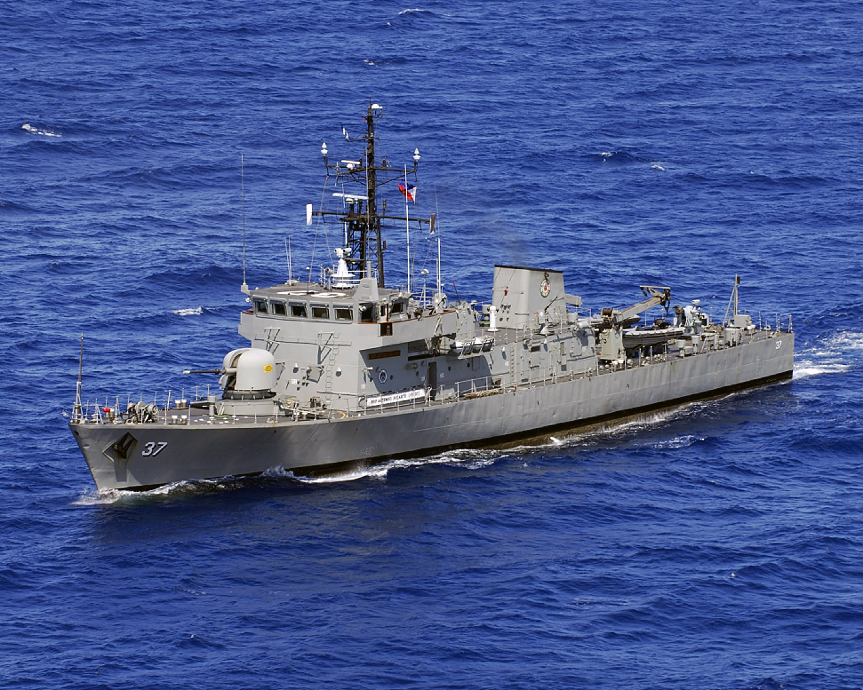 SOUTH CHINA SEA (Feb. 24, 2008) The Republic of Philippines Tatlong Bayany-class corvette BRP Artemio Ricarte (PS-37) steams in the South China Sea during the annual bilateral exercise Balikatan 2008. During the Balikatan 2008 humanitarian assistance and training activities, military service members from the United States and the government of the Republic of the Philippines are working together to improve maritime security and ensure humanitarian assistance and disaster relief efforts are efficient and effective.